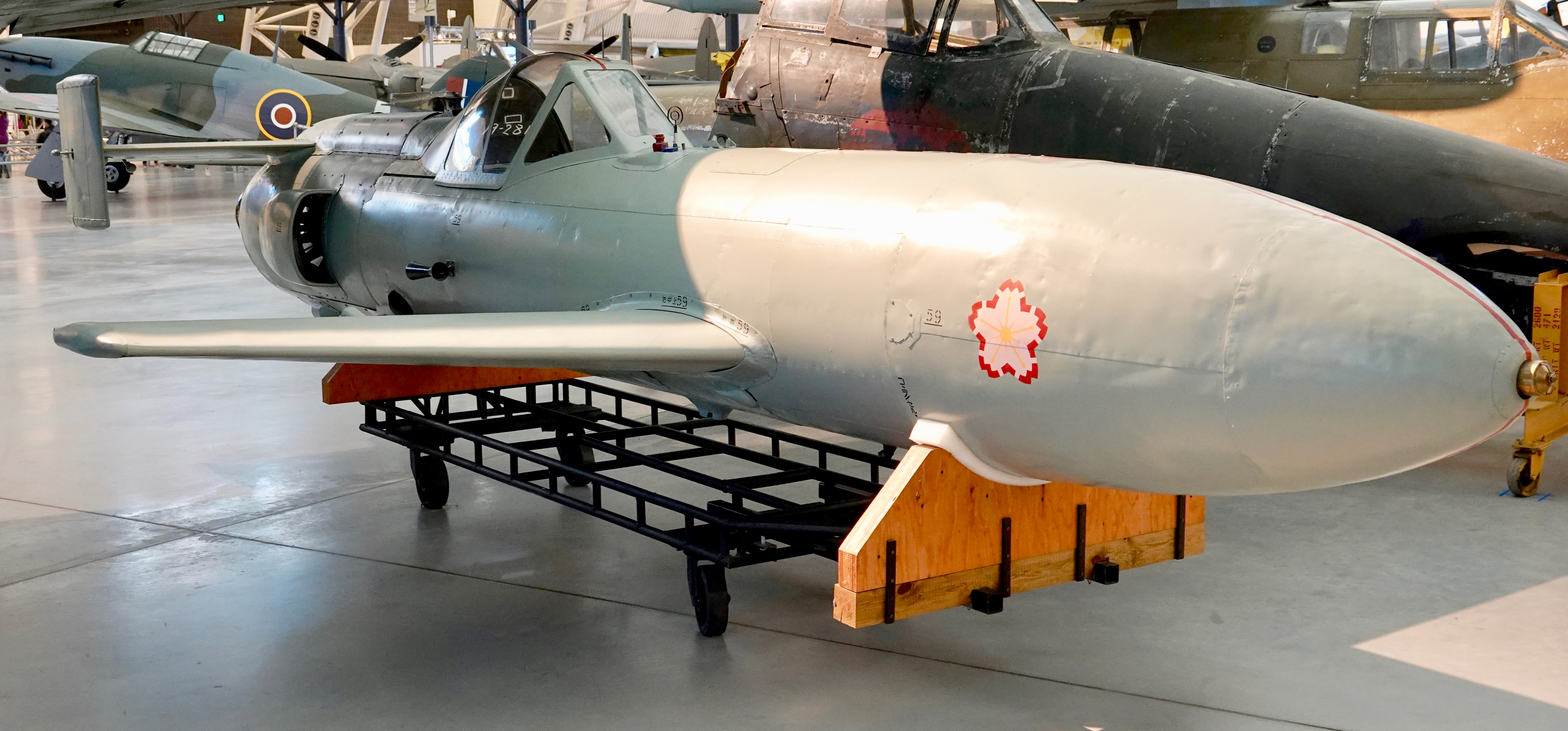 Near the end of World War II, Vice Admiral Onishi Takijino recommended that the Japanese navy form special groups of men and aircraft to attack American warships in the Philippines. The Japanese used the word Tokko (Special Attack) to describe these units, known to the Allies as the kamikaze. Some 5,000 pilots died making Tokko attacks. The Ohka (Cherry Blossom) Model 22 was designed to allow a pilot with minimal training to drop from a Japanese navy bomber at high altitude and guide his aircraft with its warhead at high speed into an Allied warship. Plans were afoot in 1944 to adapt a Yokosuka Pl Y Ginga to carry the Model 22. While several rocket-powered Ohka 11s still exist, this Ohka 22 is the only surviving version powered by a motor-jet, a reciprocating engine that pressurized a combustion chamber into which fuel was injected and ignited. Unlike the Ohka 11, the Ohka 22 never became operational. Picture taken at the National Air and Space Museum's Steven F. Udvar-Hazy Center in Chantilly, Virginia, USA